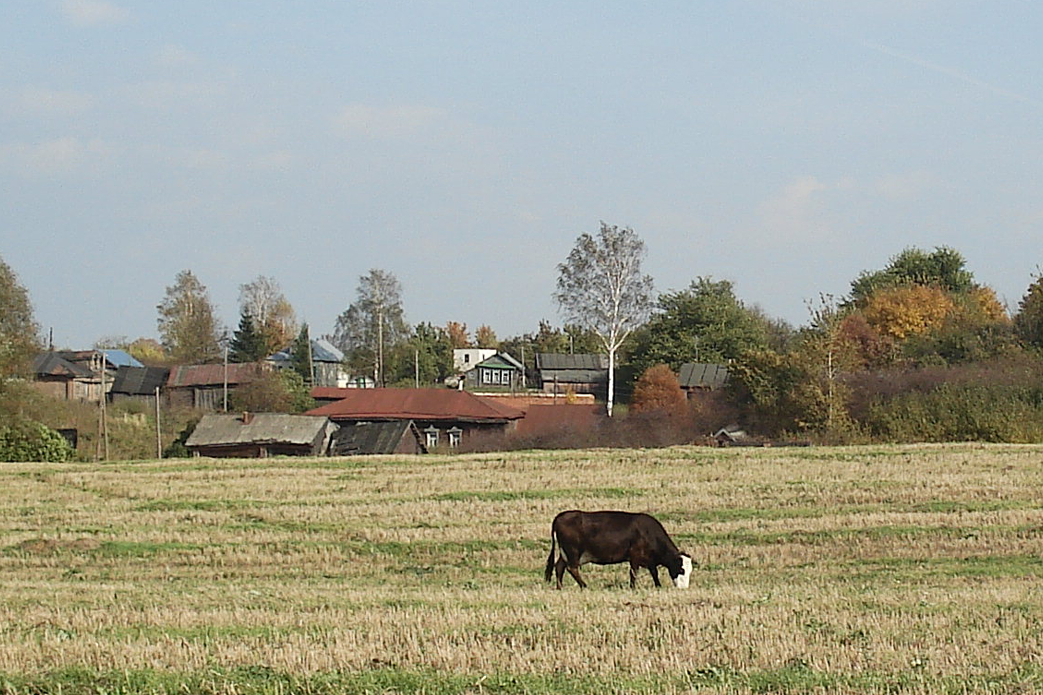 The village of Viripaevo. View from Koshkino. Nizhegorodskaya oblast. Russia.